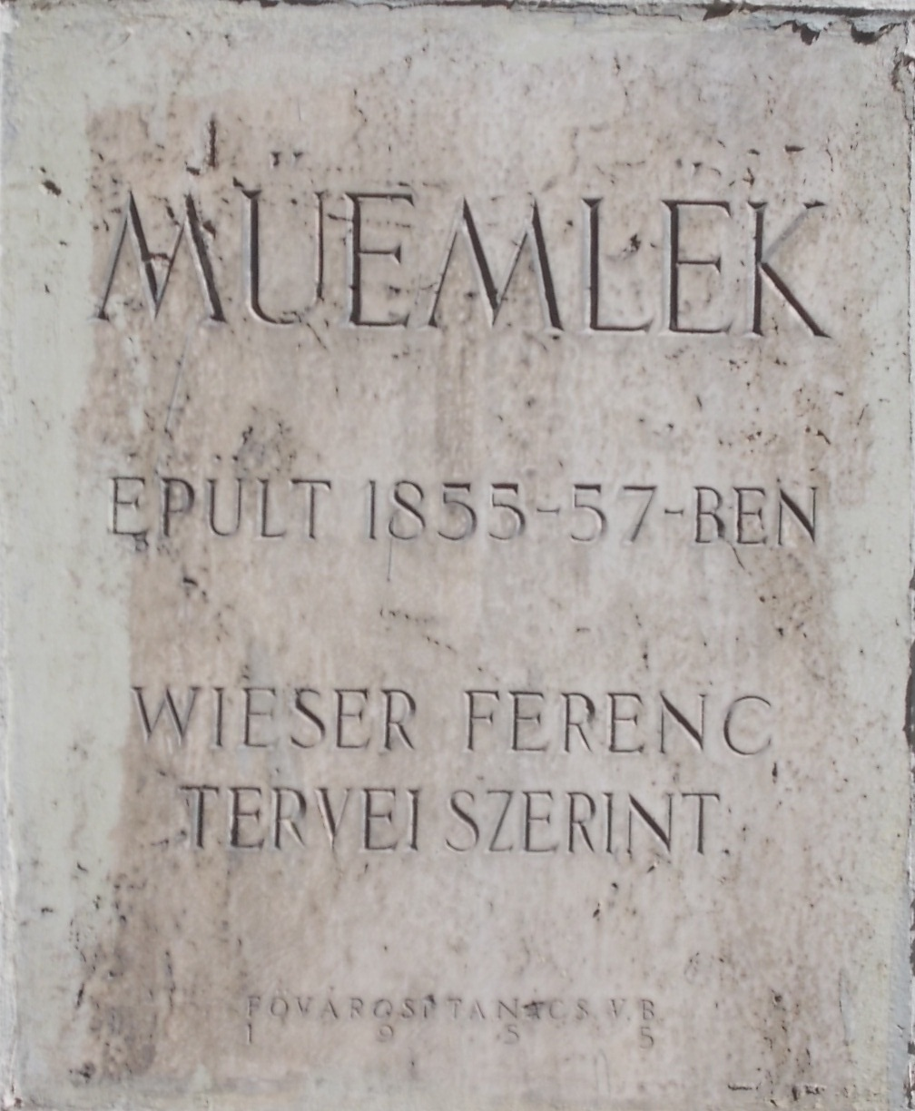 Corner building planed by Ferenc Wieser, built in 1857. - 9 Hercegprimás street, Lipótváros neighbourhood, District V, Budapest.